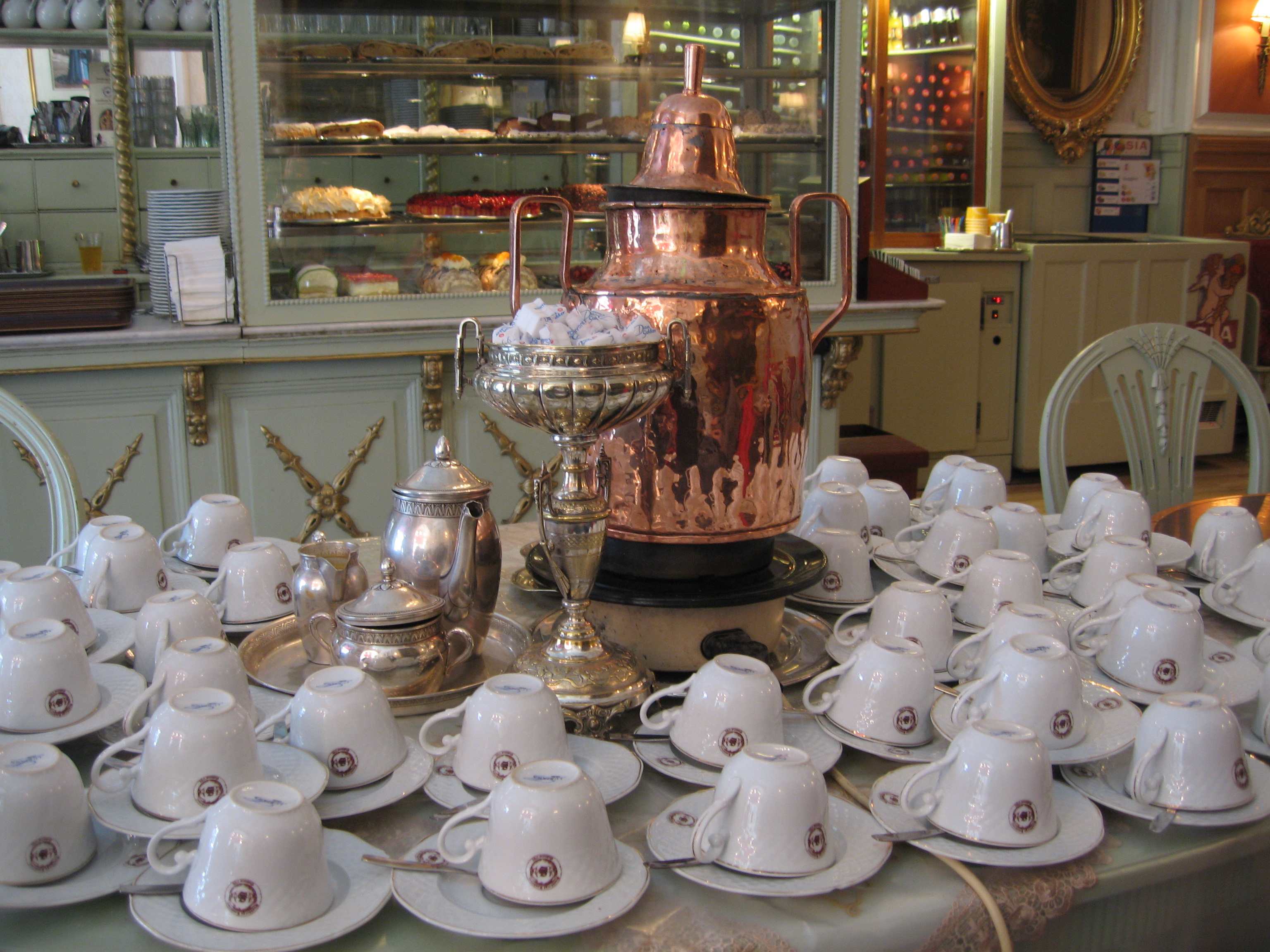 Stockholms äldsta konditori